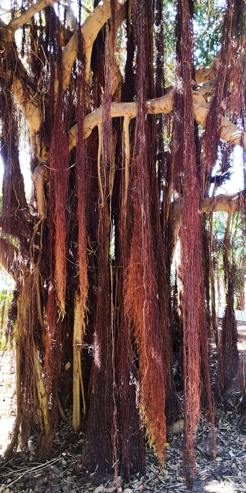 Ficus rubiginosa – Stem with bark and aerial roots. February 2020. Location: Palmetum, Santa Cruz de Tenerife, Canary Islands, Spain. 28,452, -16,256